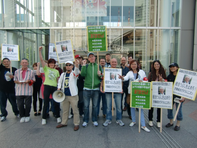 Leafleting at Gaba October 2011